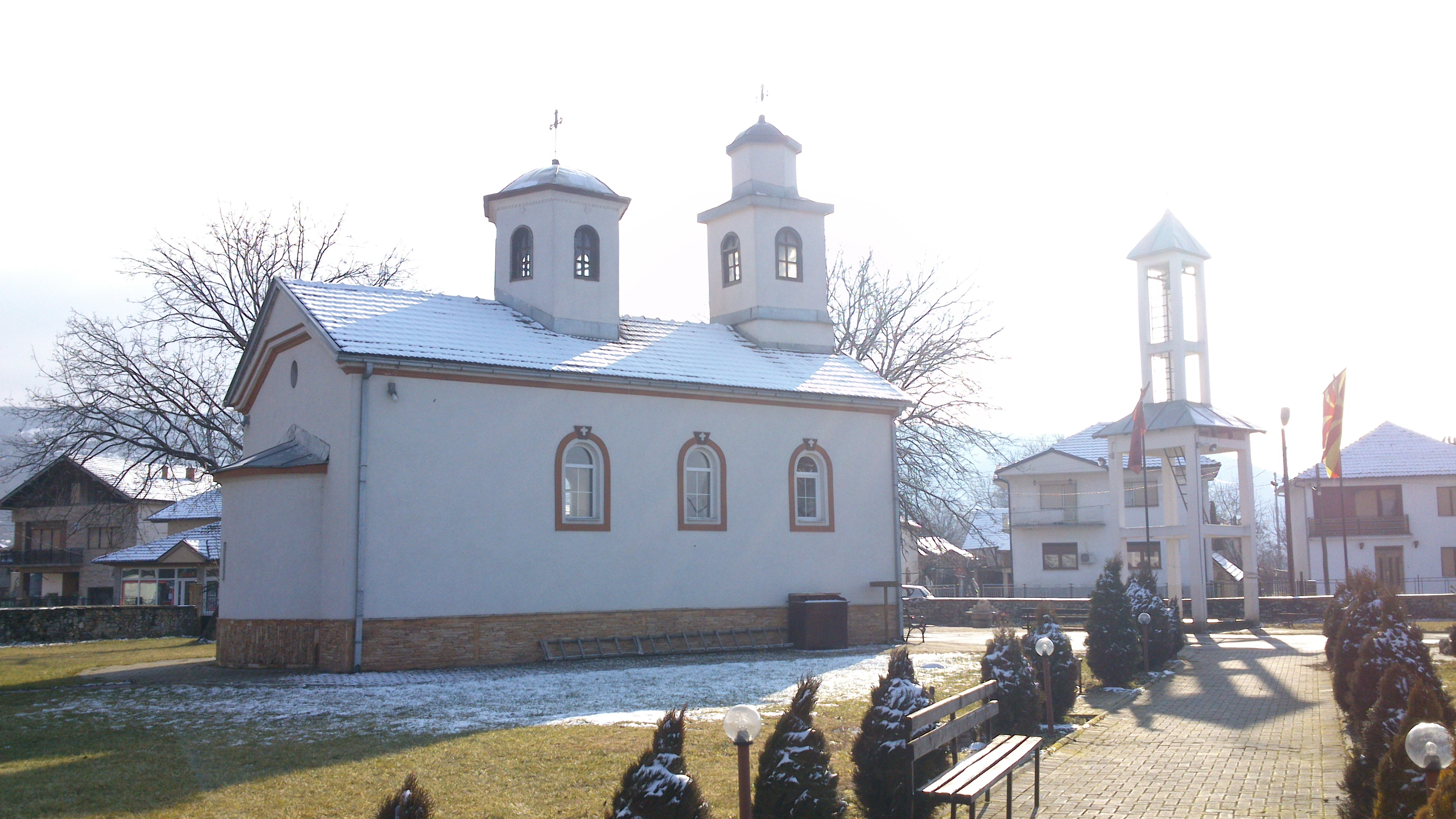 Nativity of the Theotokos Church in Saraćino, Metovo, Macedonia